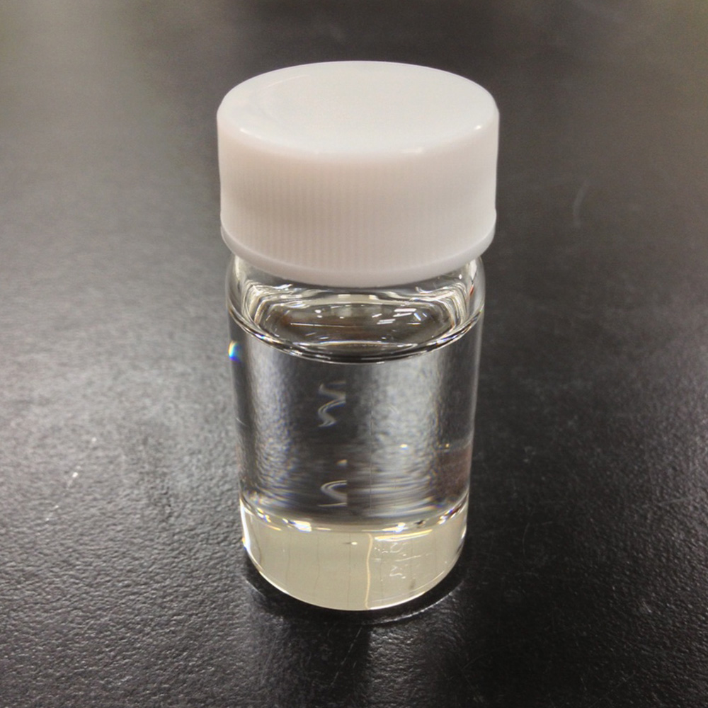 Sample of Dimethyl sulfoxide